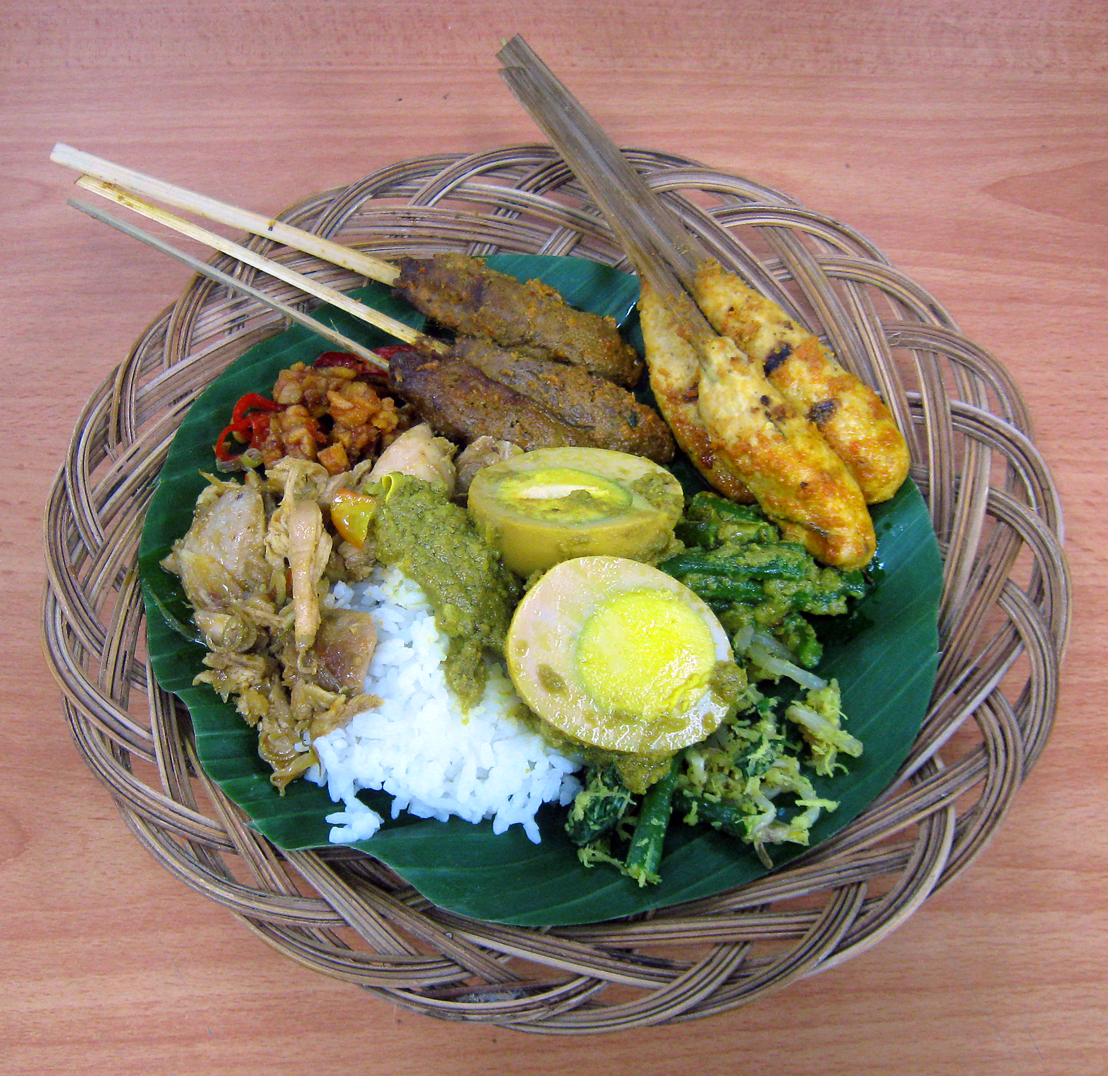 Balinese Nasi Campur (mixed rice) with two types of Sate Lilit (meat and fish), egg, chicken and vegetables.